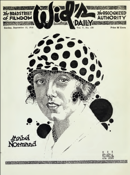 cover of Film Daily